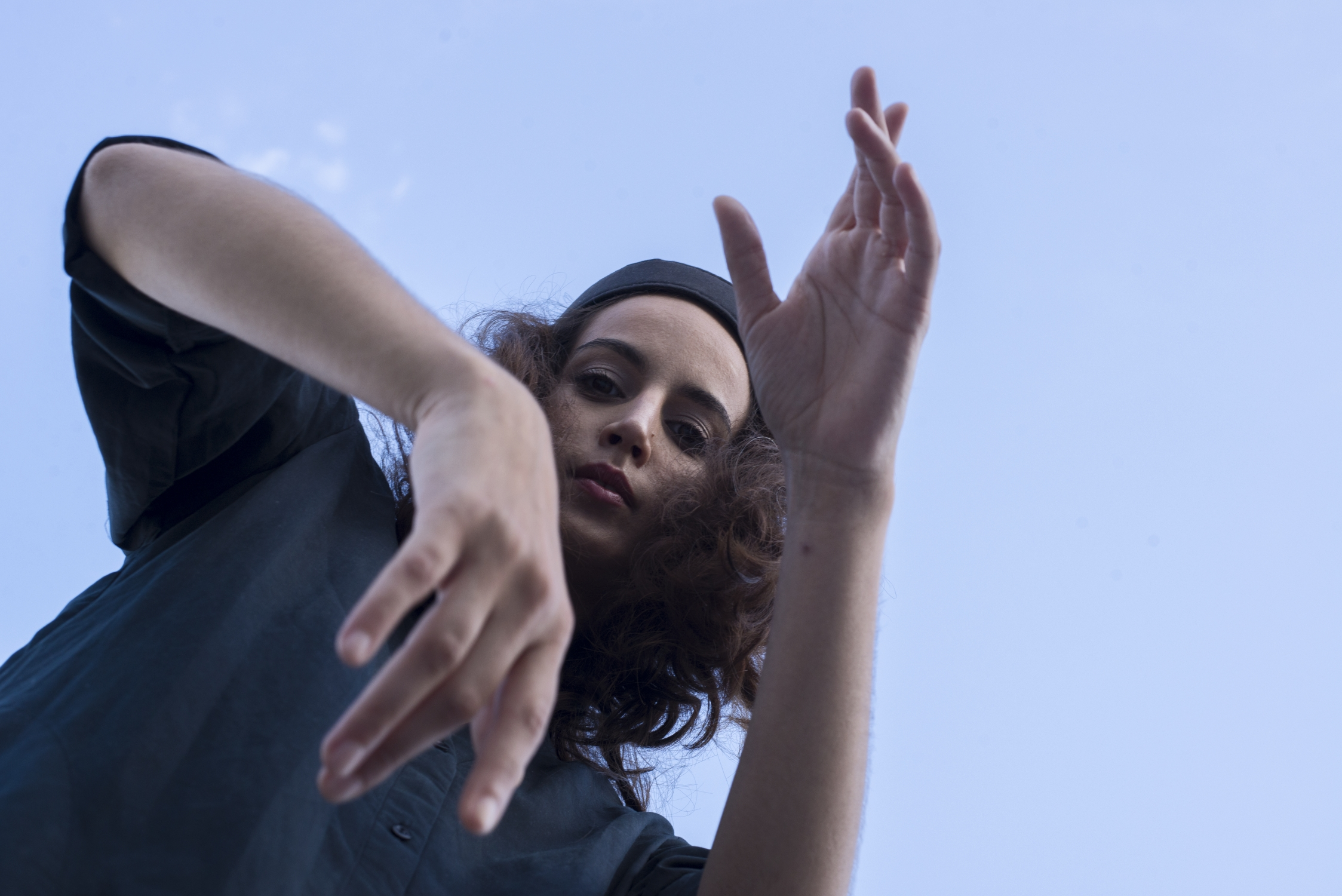 Pressefoto der Rapperin Ebow